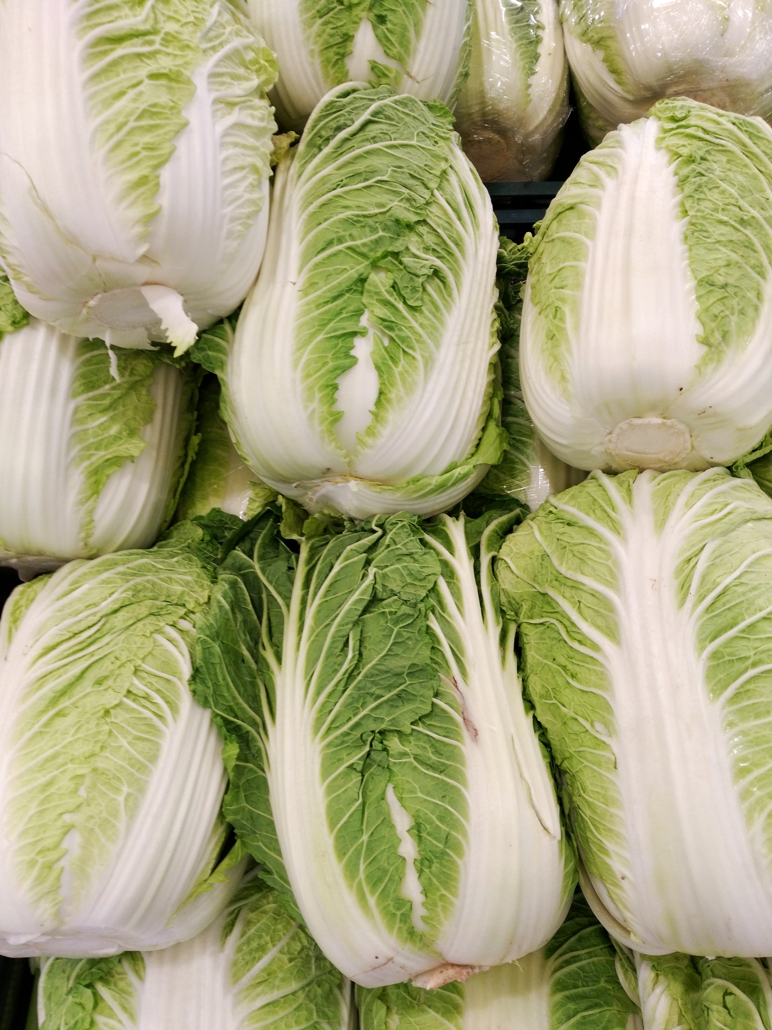 Napa cabbages sold at a supermarket in Seoul, Korea.